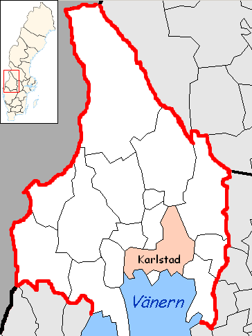 Karlstad Municipality in Värmland County Designd by me, based on Image:Värmland County.png